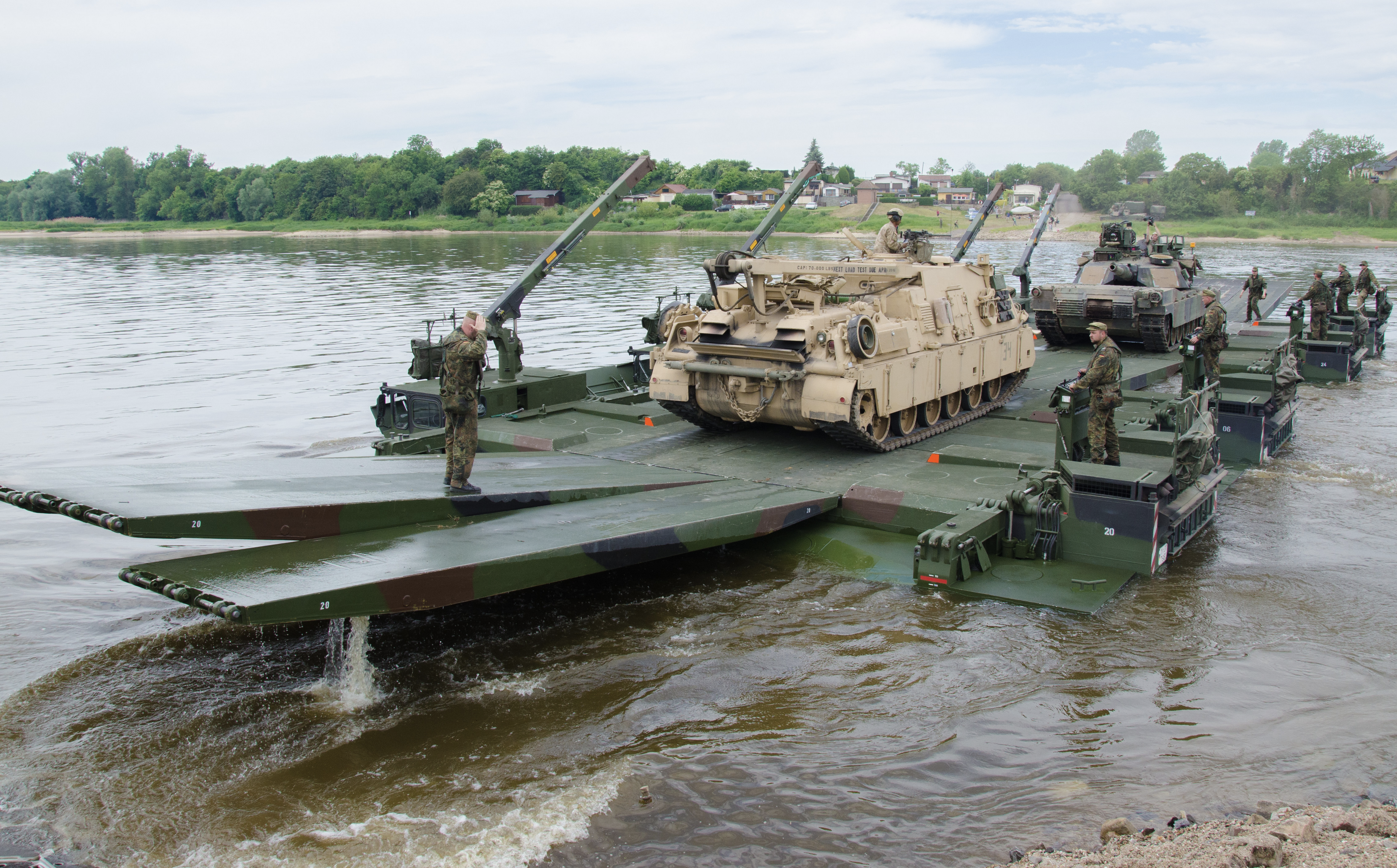 U.S. and German Army units conduct assault river crossing of the river Elbe using German M3 amphibious bridging vehicles, 2015.